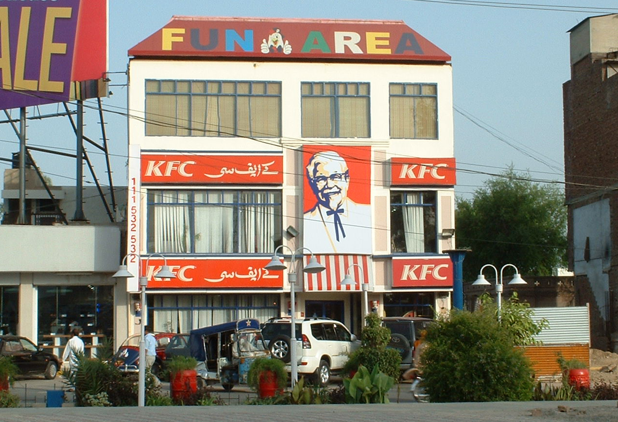 KFC at D Ground Park, Faisalabad